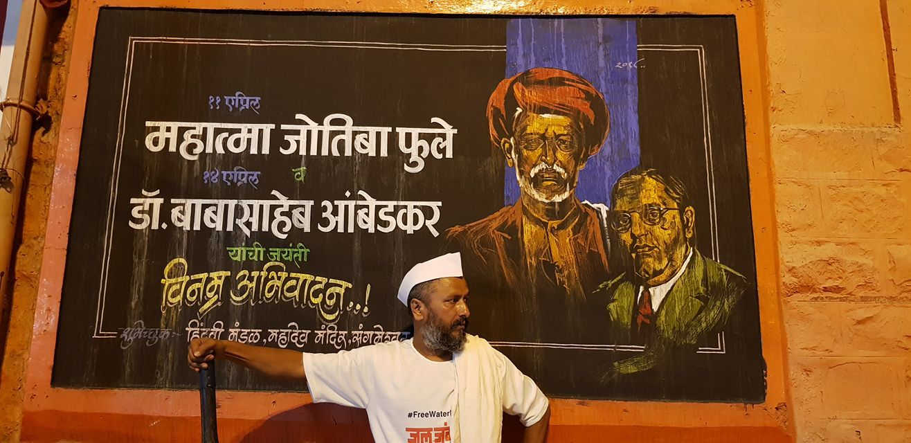 Filmmaker Sriram Dalton is on a ‘Free India Water Padyatra’ to spread awareness on 'dying' rivers of India.